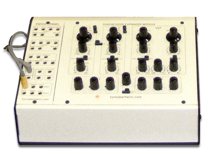 reissued SEM (Synthesizer Expander Module) by Tom